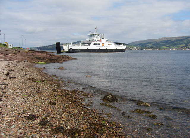 The MV Loch Shira departing Great Cumbrae Island for Largs